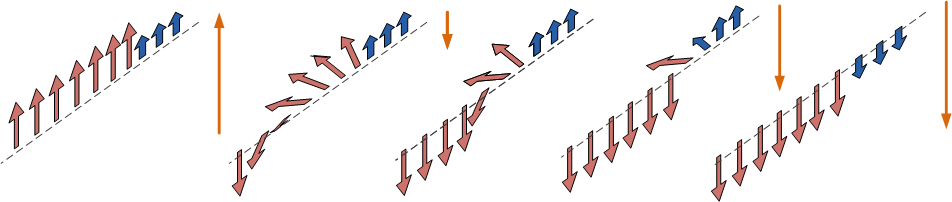 Illustration of magnetic moments of exchange spring magnet.